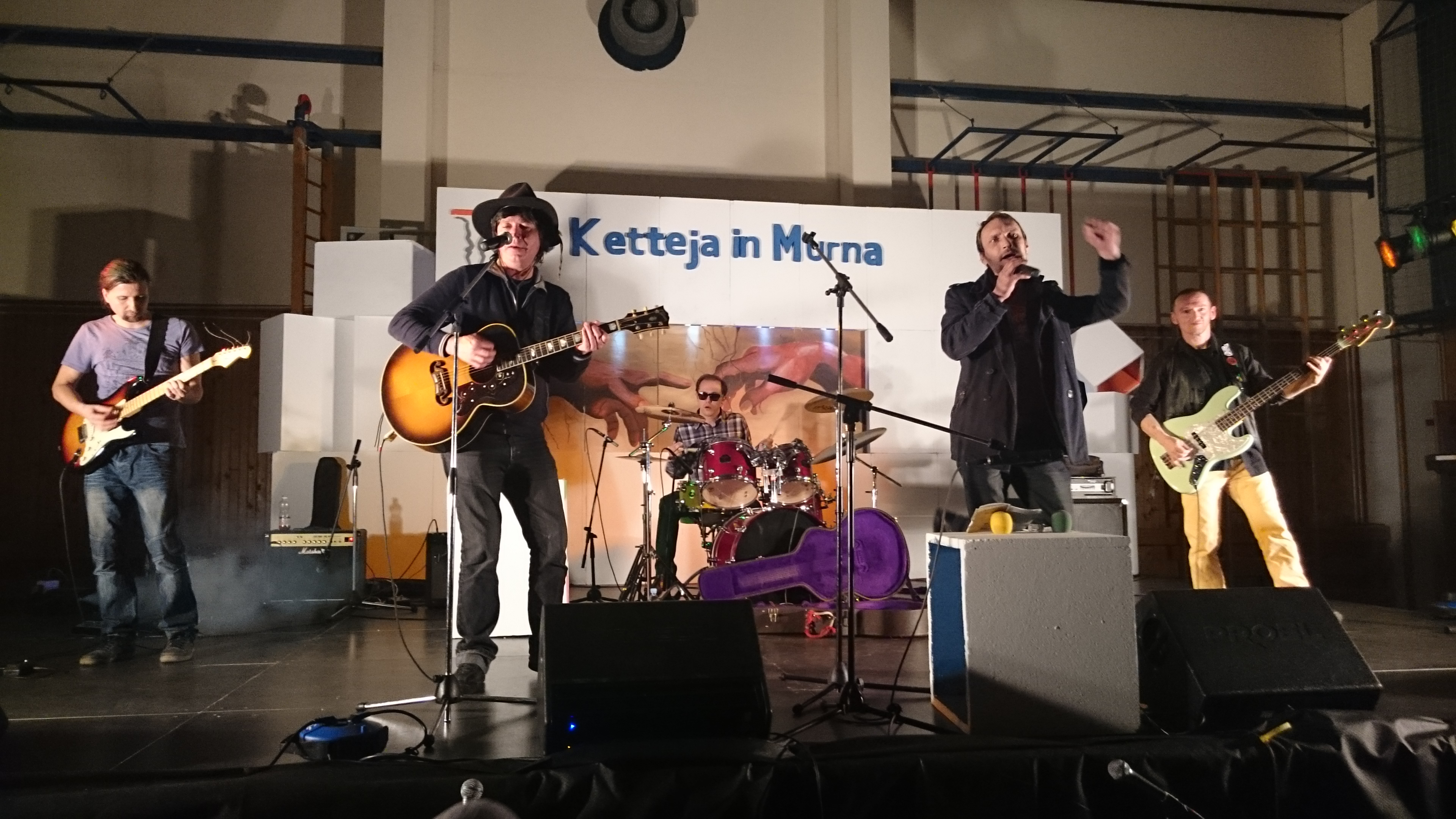 Leteči potepuhi band, Kodeljevo 2015